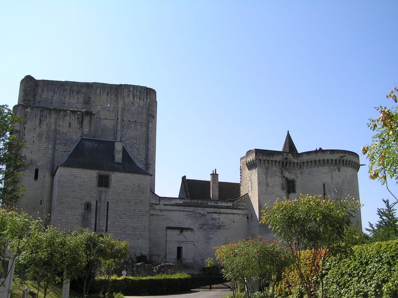 The keep of the castle of Loches